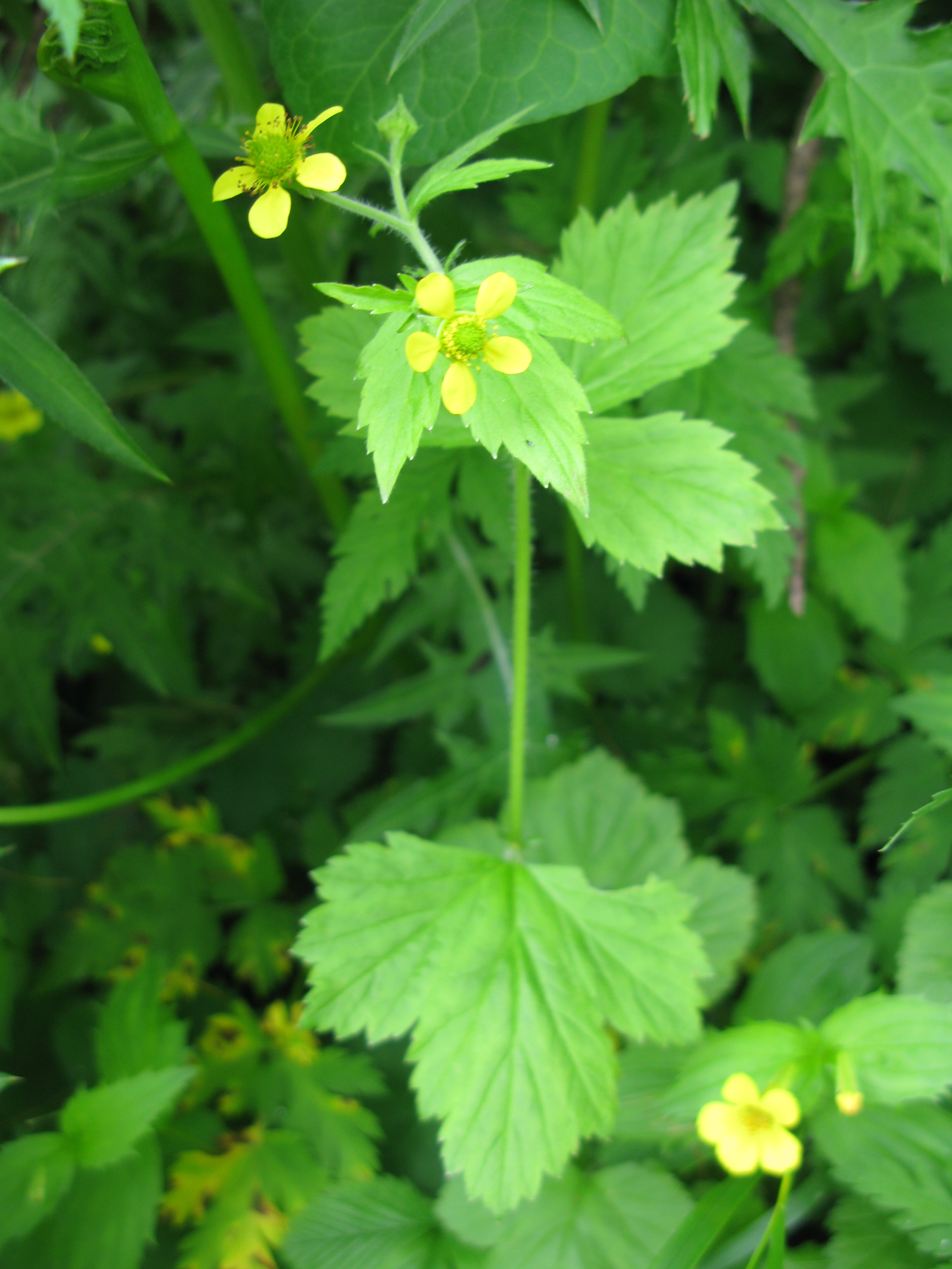 Geum macrophyllum var. sachalinense, Mt. Hiuchigatake, Fukushima pref., Japan